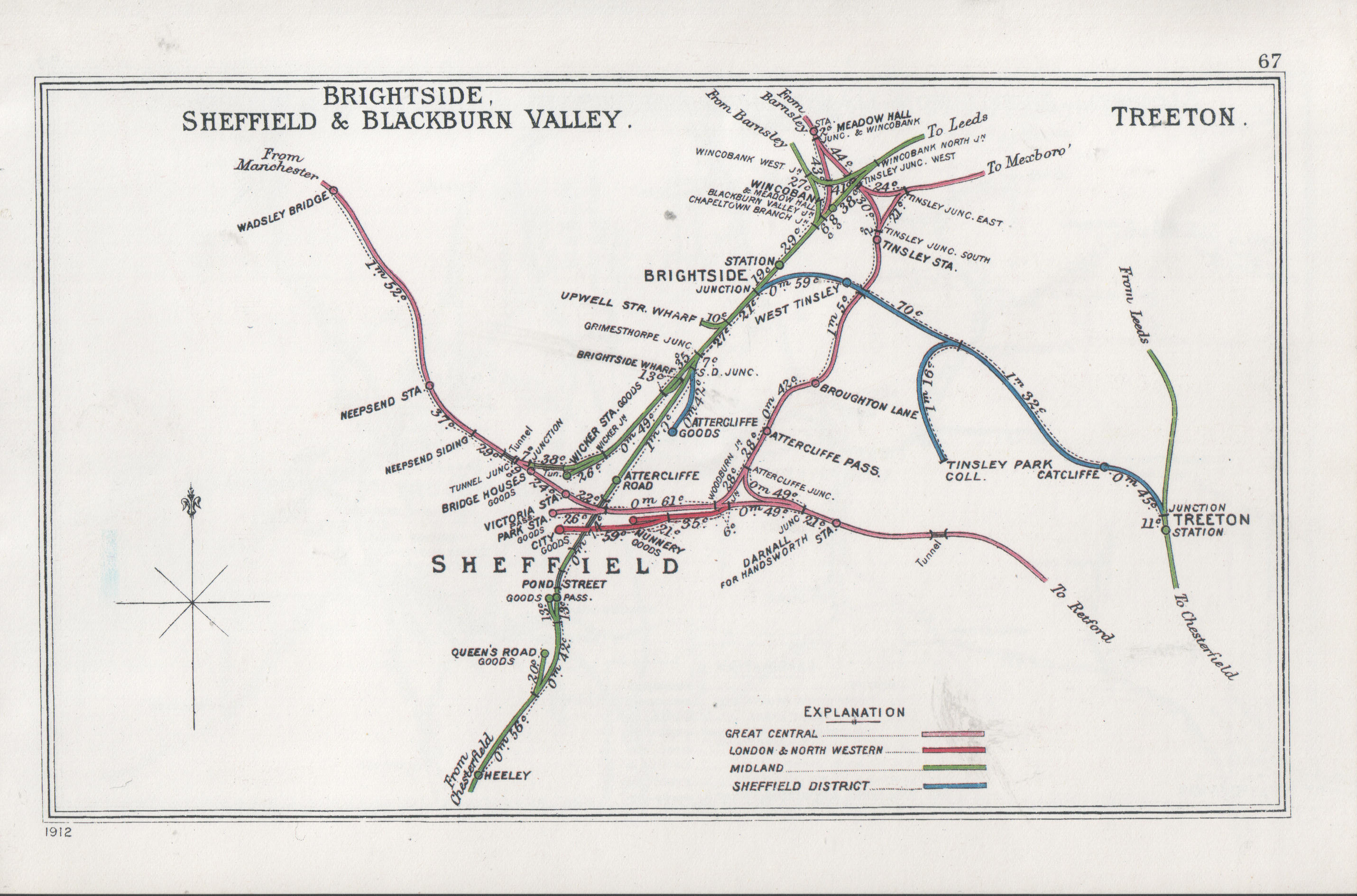 Pre Grouping railway junction around Brightside, Sheffield & Blackburn Valley; Treeton